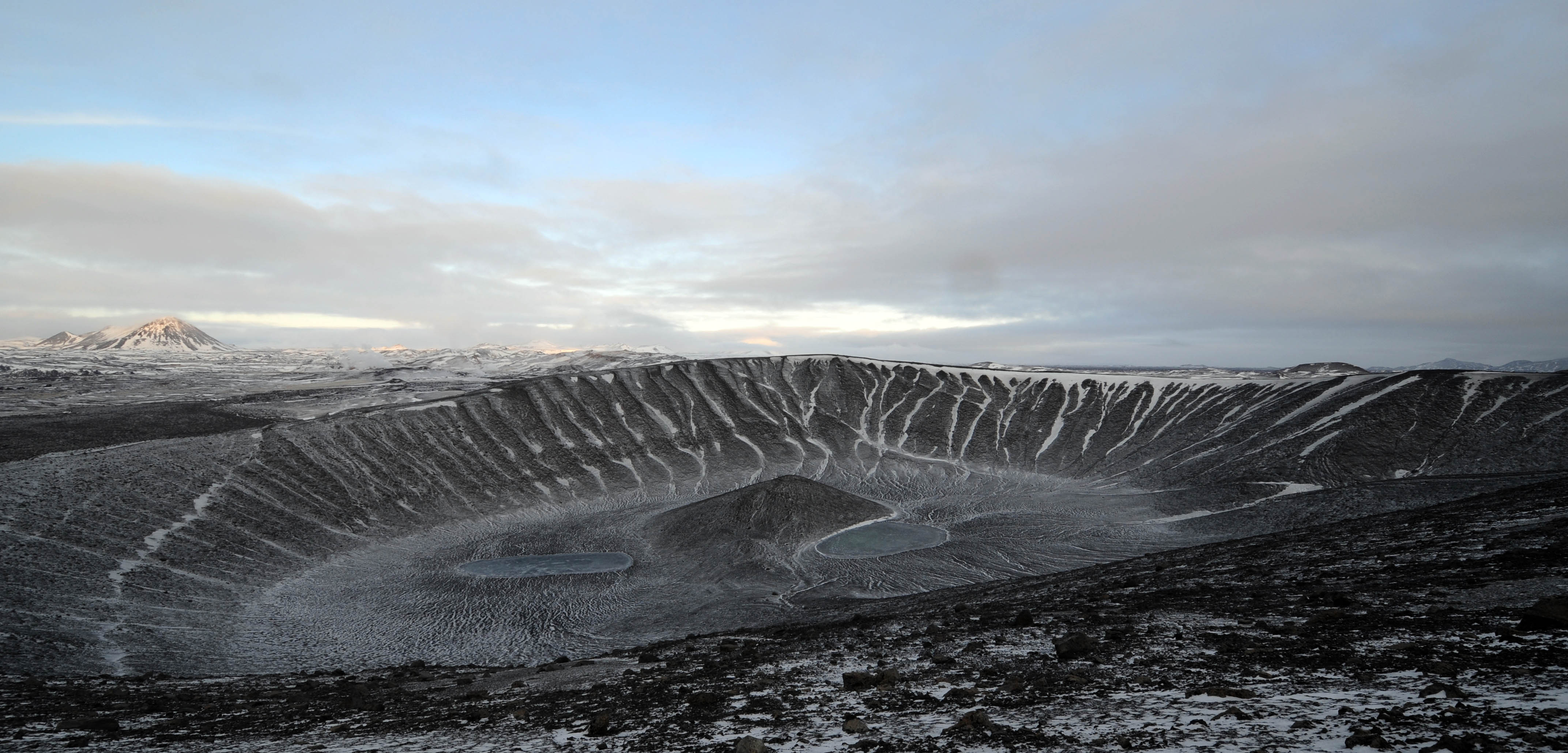 Hverfjall's crator in northern Iceland.